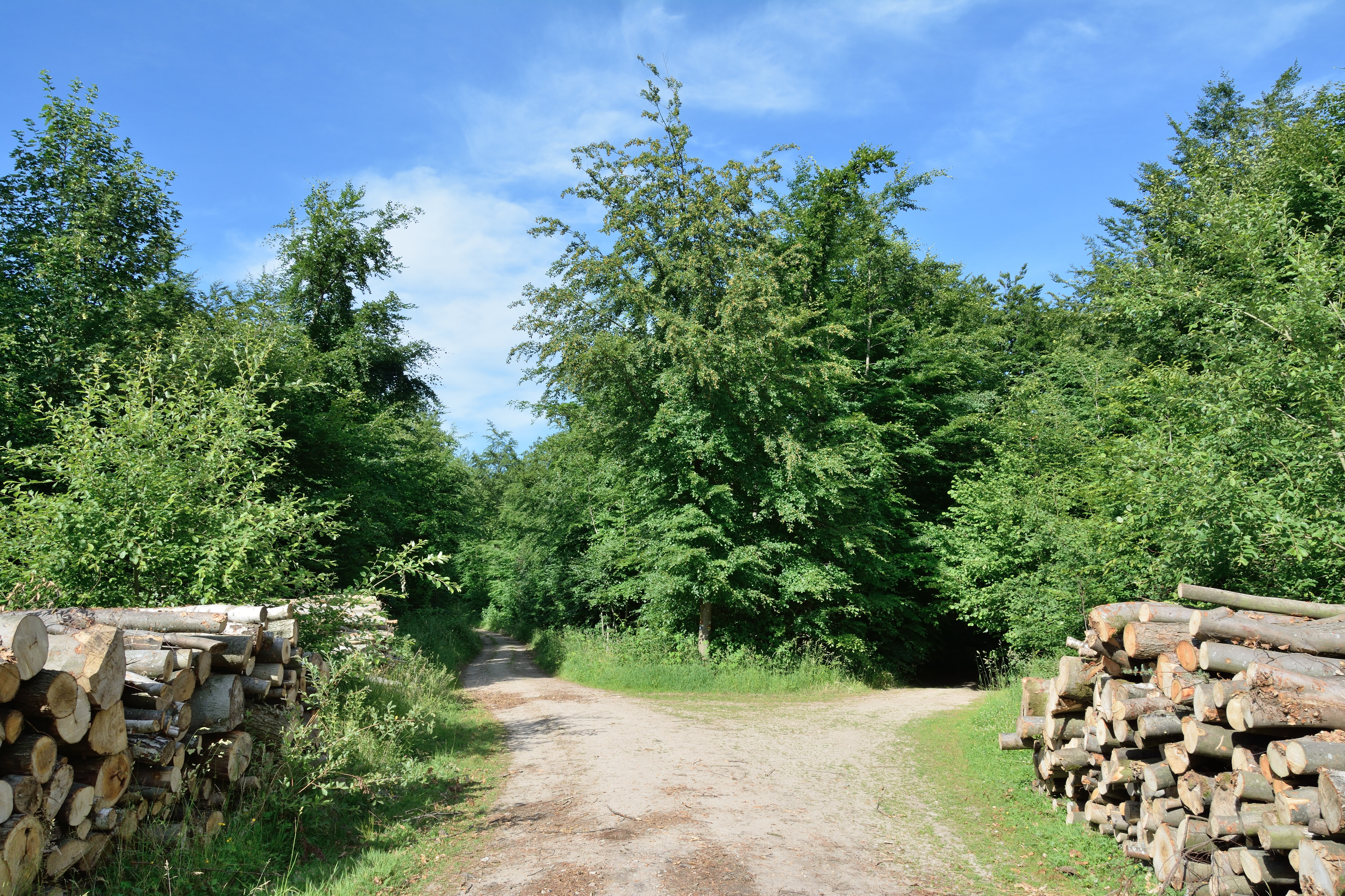 The district Steinburg has summarized several areas under the common name "Landschaftsbestandteile und Landschaftsteile im Bereich mehrerer Gemeinden." This photo was taken "Vorderholz" in Itzehoe in the forest area, it is the portion of No. 7